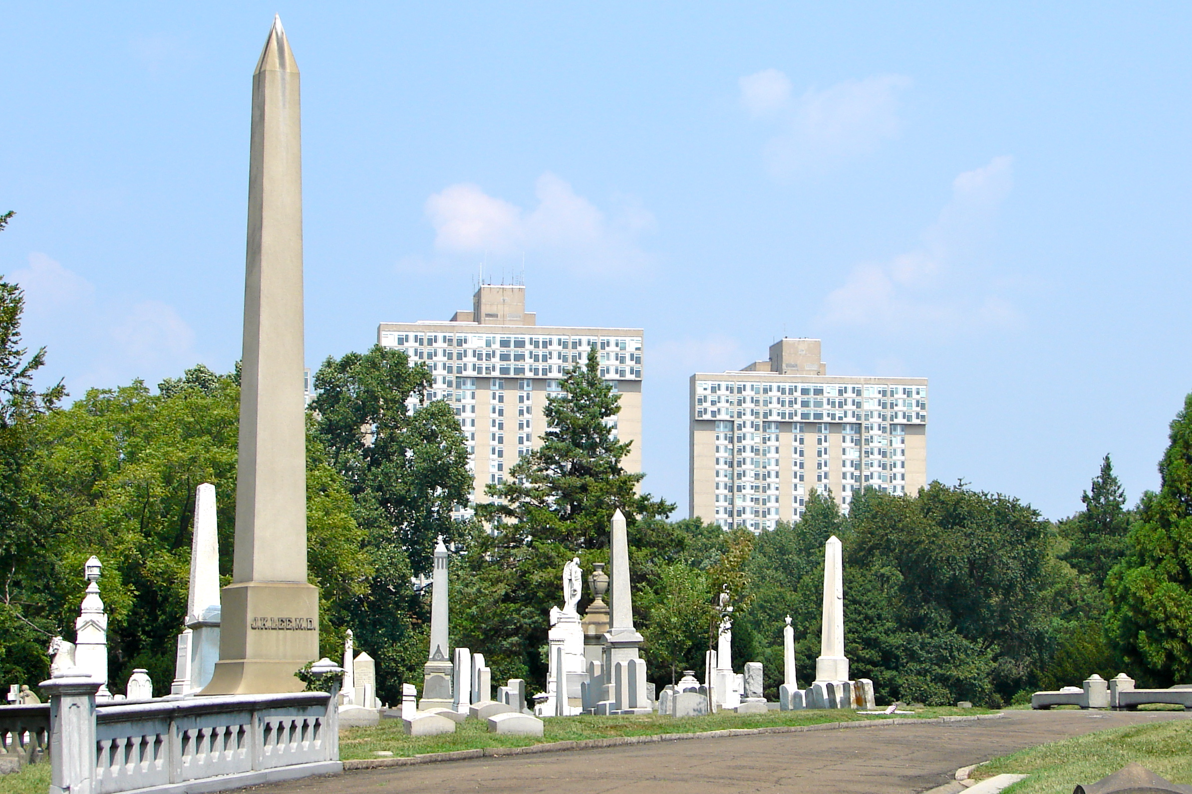 Woodlands Cemetery (a NHL and on the NRHPs), looking east to University of Pennsylvania medical buildings